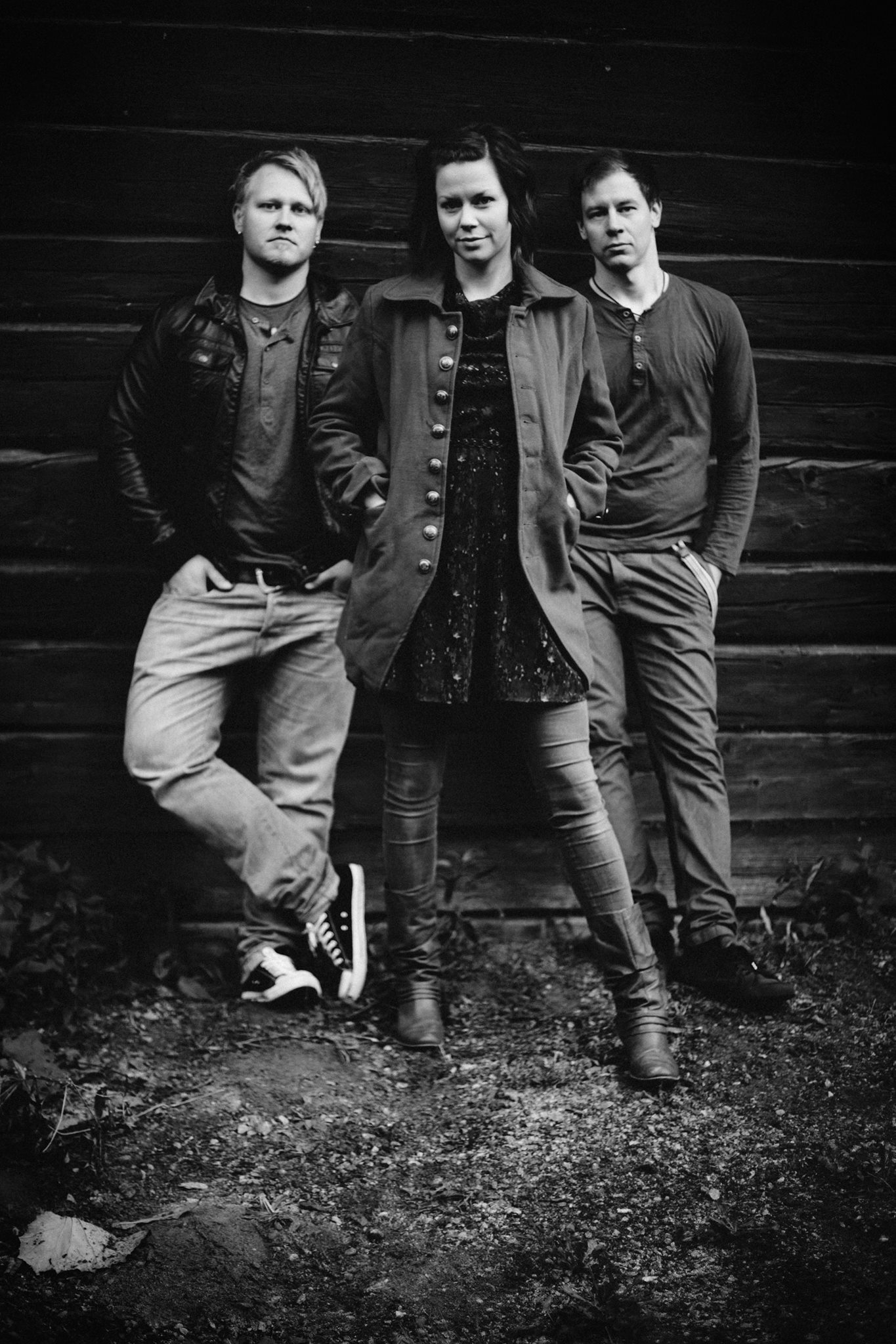 Wonderye band